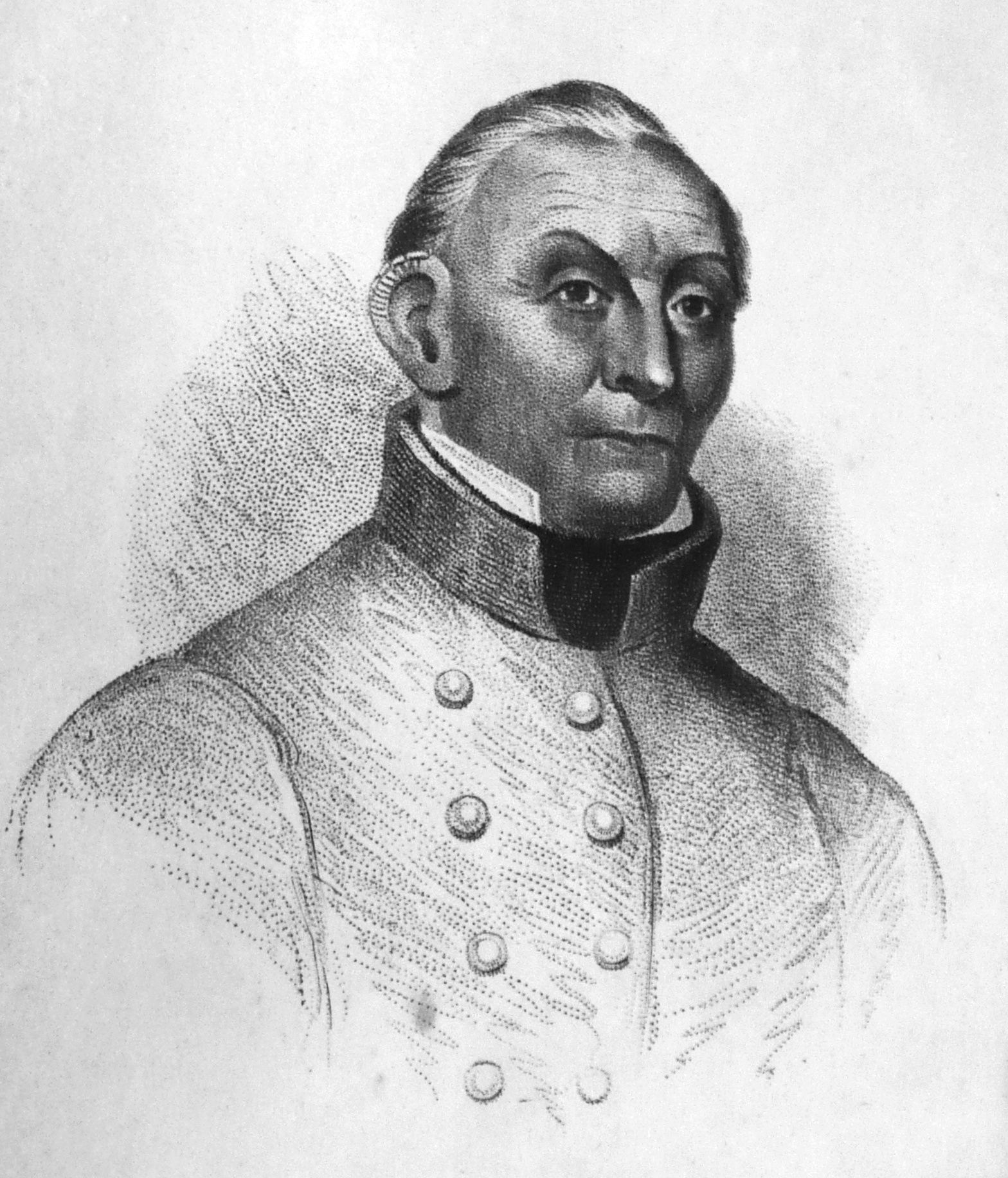 Black Hawk illustration from old book. Displayed at a talk by the Rare Book Division, at the Library of Congress "Native by Native" event Oct. 27, 2012.